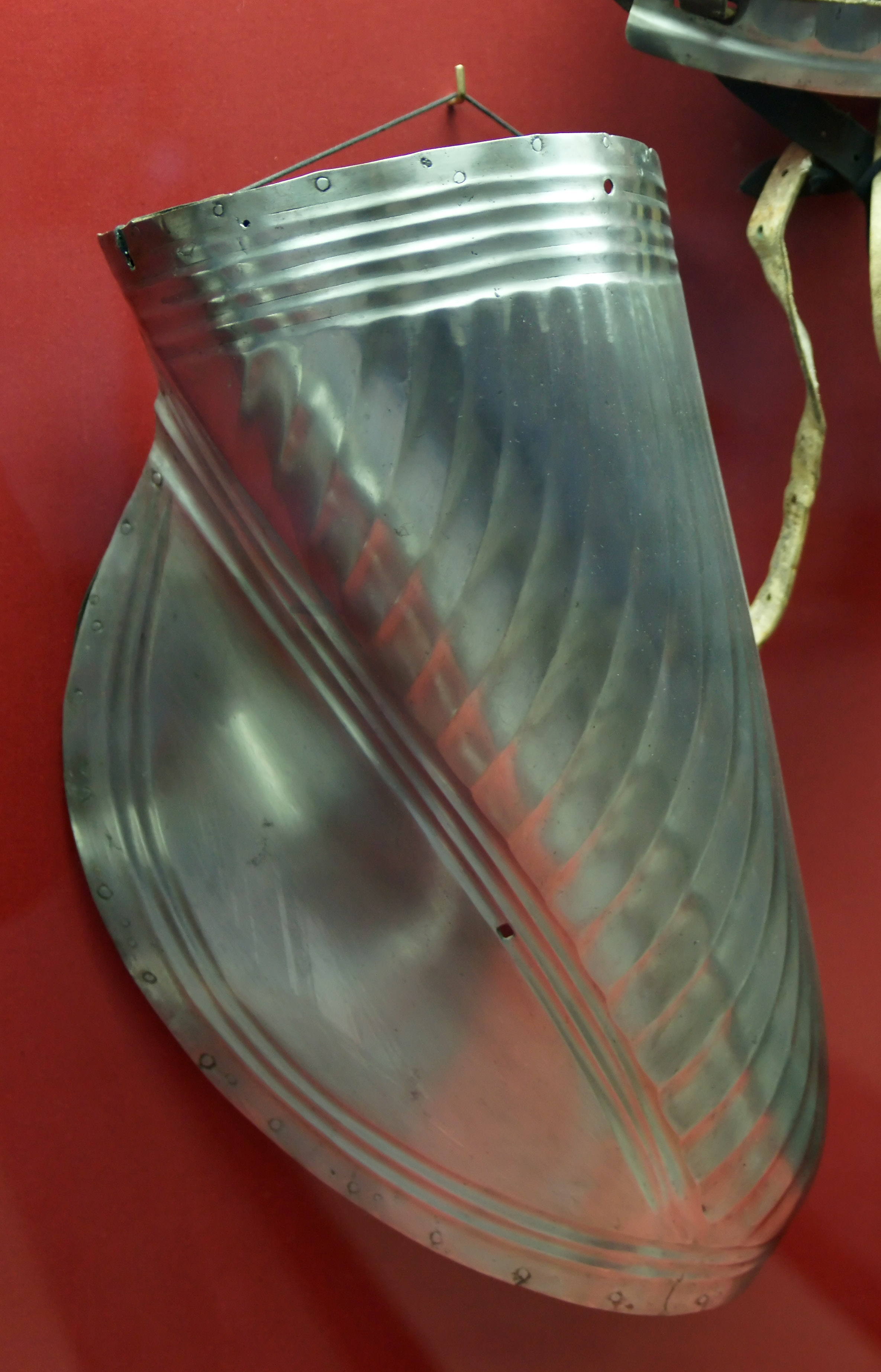 Thigh shield (Dilge).